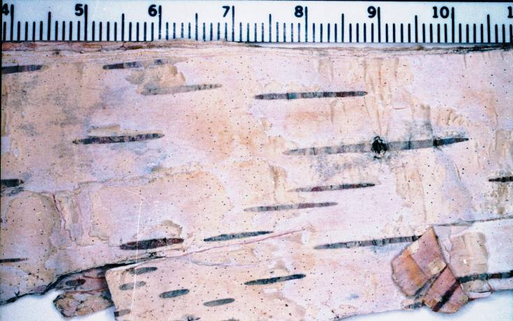 Leptorhaphis epidermidis (Ach.) Th. Fr., 1860 (a non-lichenized fungus) Growing on Paper Birch along the roadside near the picnic area of Bush Bay, ca. 6 miles E of Cedarville on M-134, Mackinac County, Michigan, USA; collected and identified by Richard E. Riefner (No. 81-421, 7 Jul 1981); specimen is now in the Herbarium of the New York Botanical Garden. (millimeter scale)